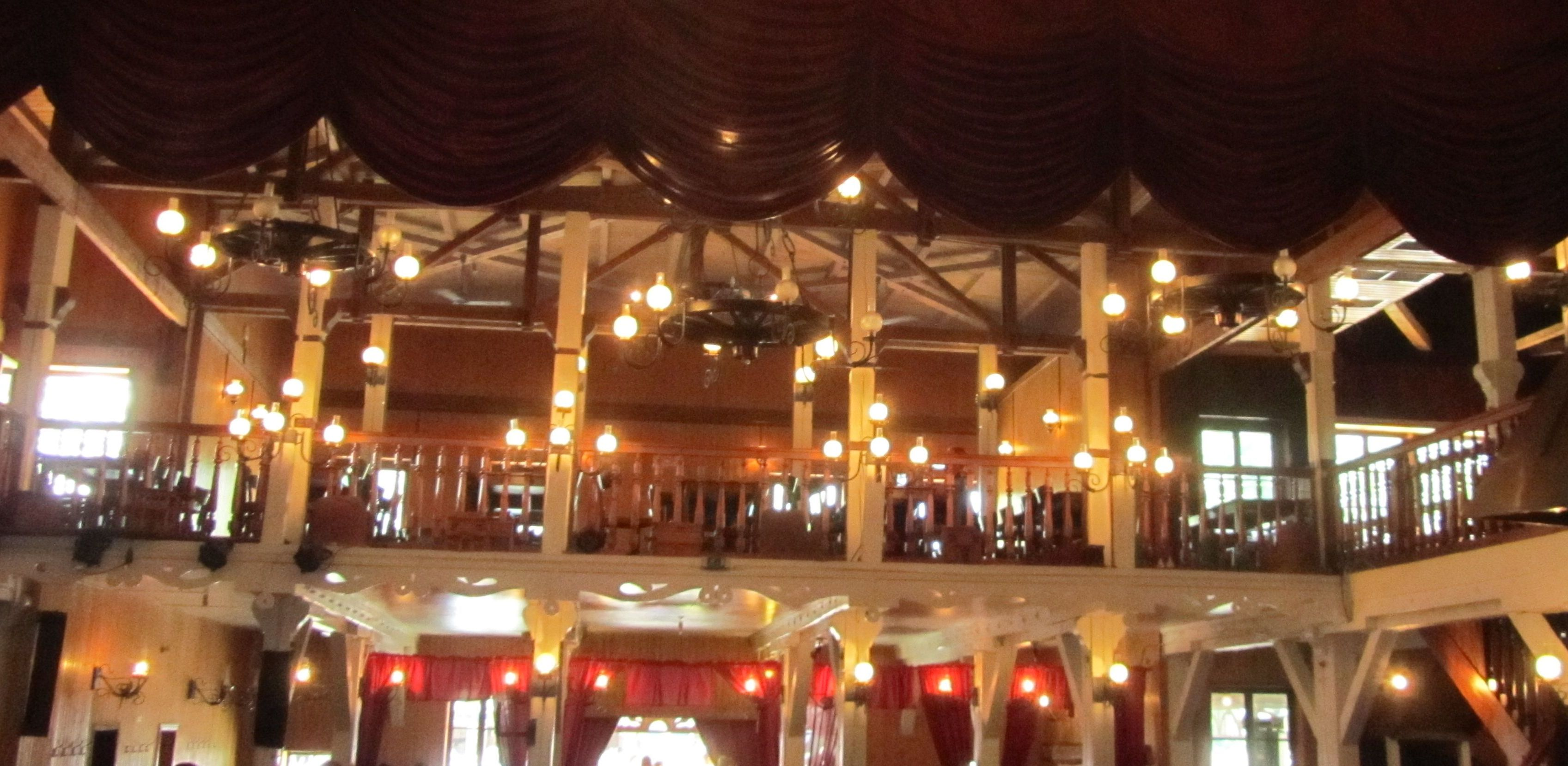 Western Saloon at the Karl May festival in Elspe, Germany